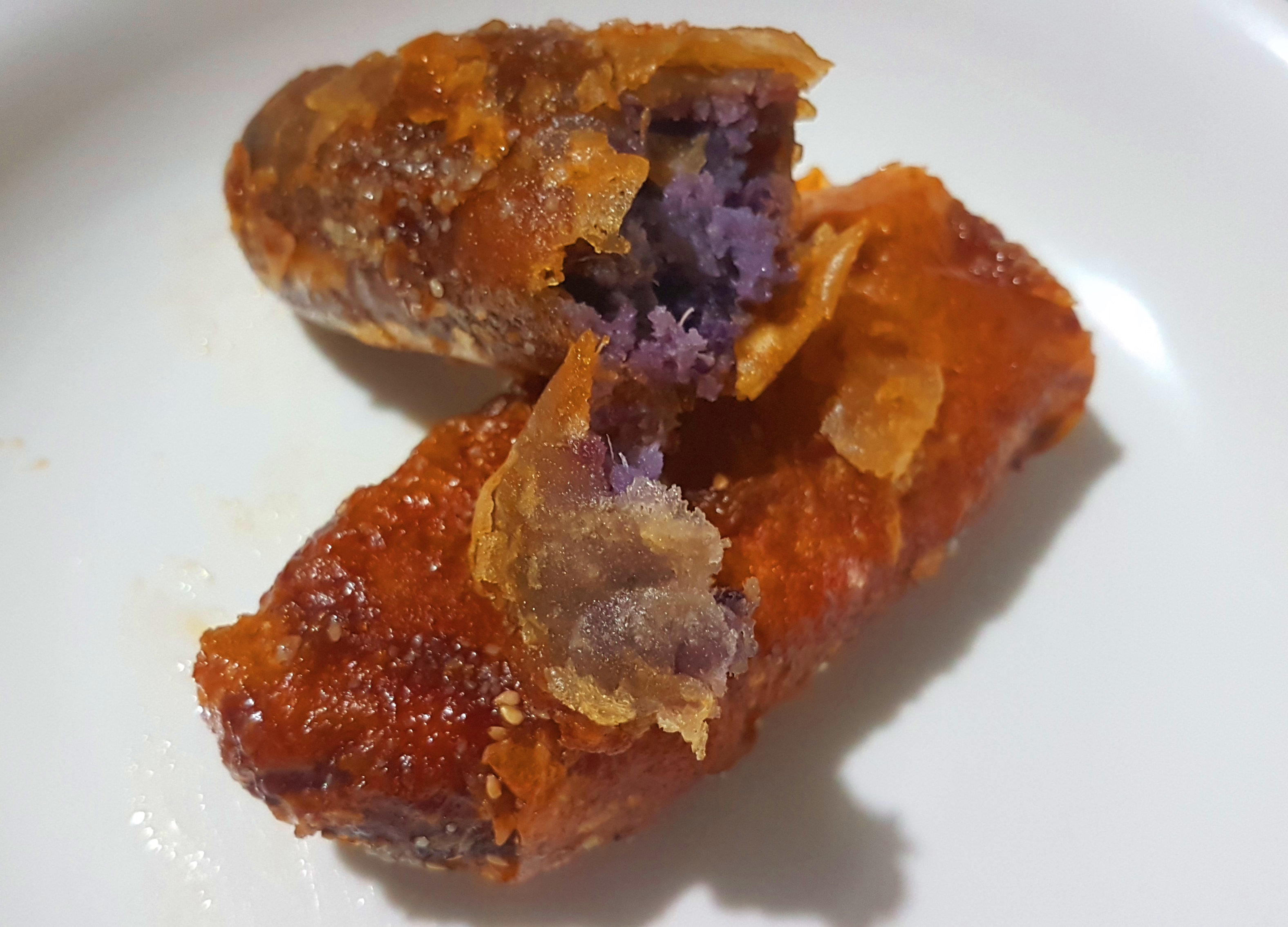 Ube turon (Philippines). Turon made with mashed purple yam and saba bananas.